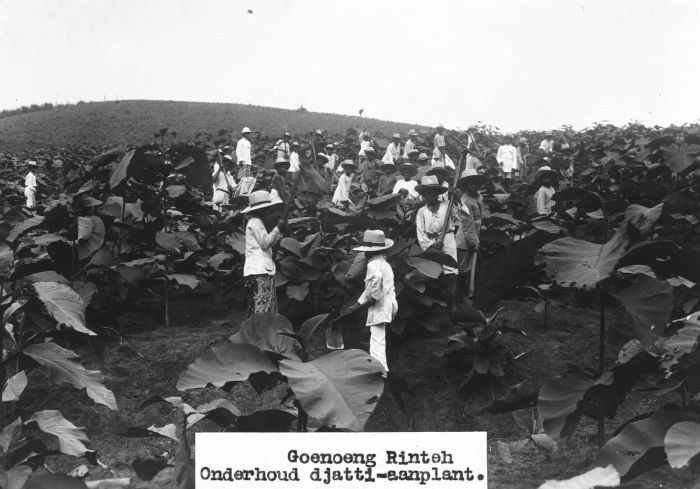 The Senembah Company's Goenoeng Rinteh plantation